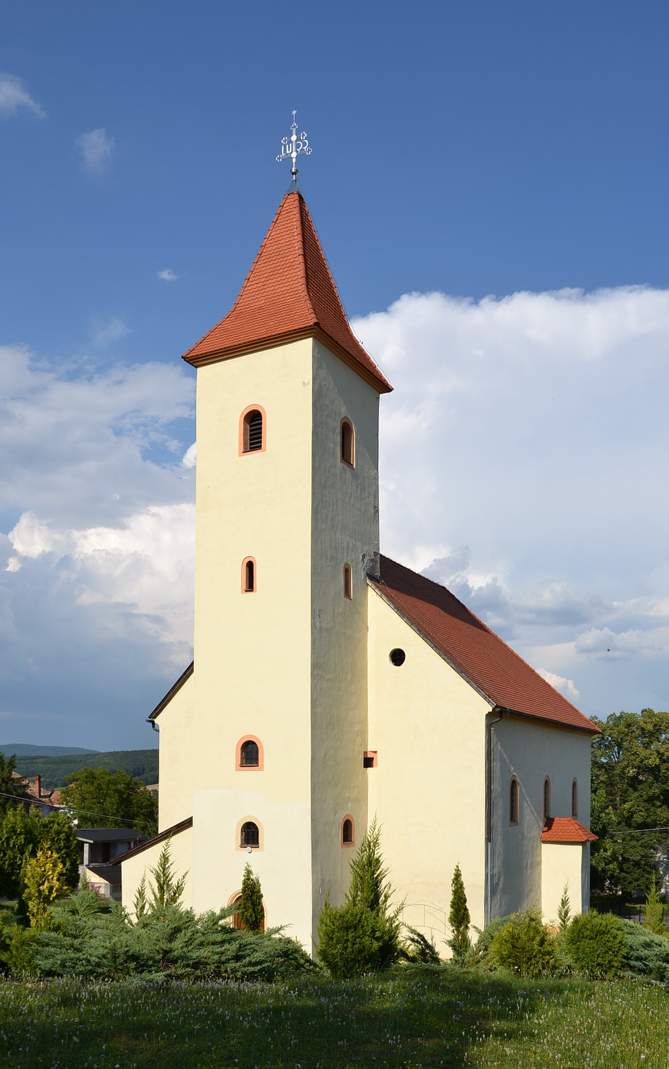 Diviacka Nová Ves (Divékujfalu, Divickneudorf) - church